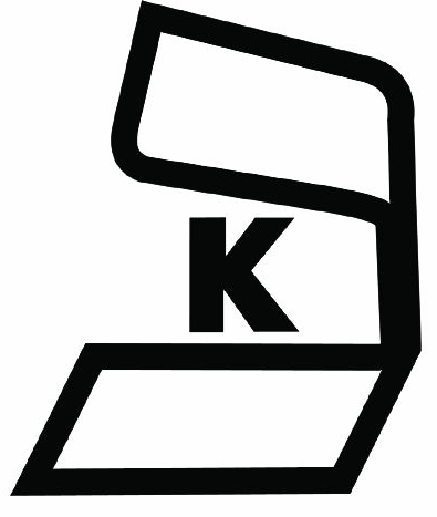 KOF-K Kosher Supervision Symbol